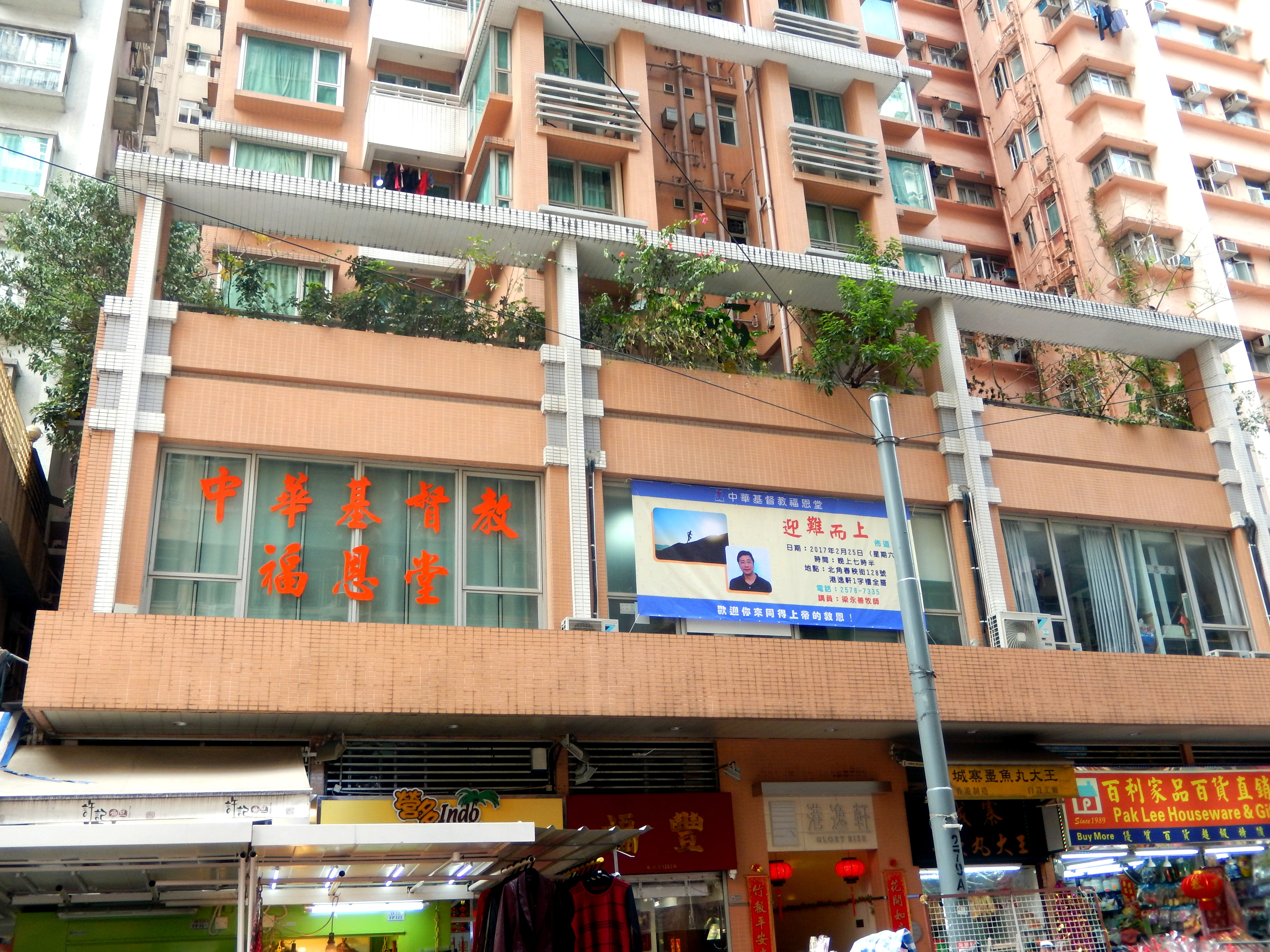 Chinese Christian God Blessed Church in Chun Yeung St., North Point, Hong Kong. Both Hokkien and Cantonese are used.